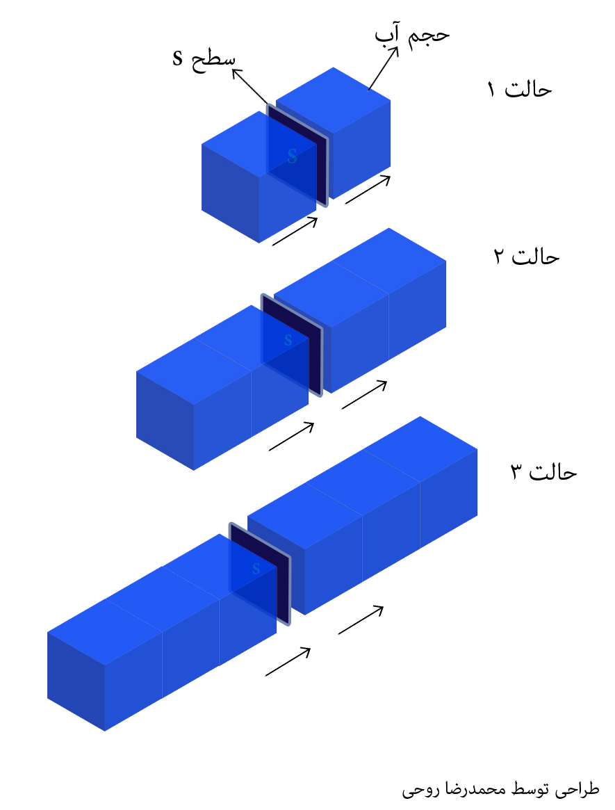 flow of water